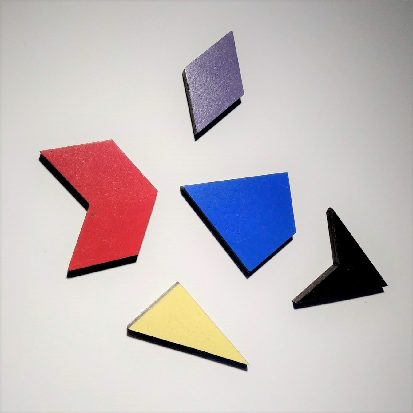 shapes produced and sold in sets by Christopher Danielson